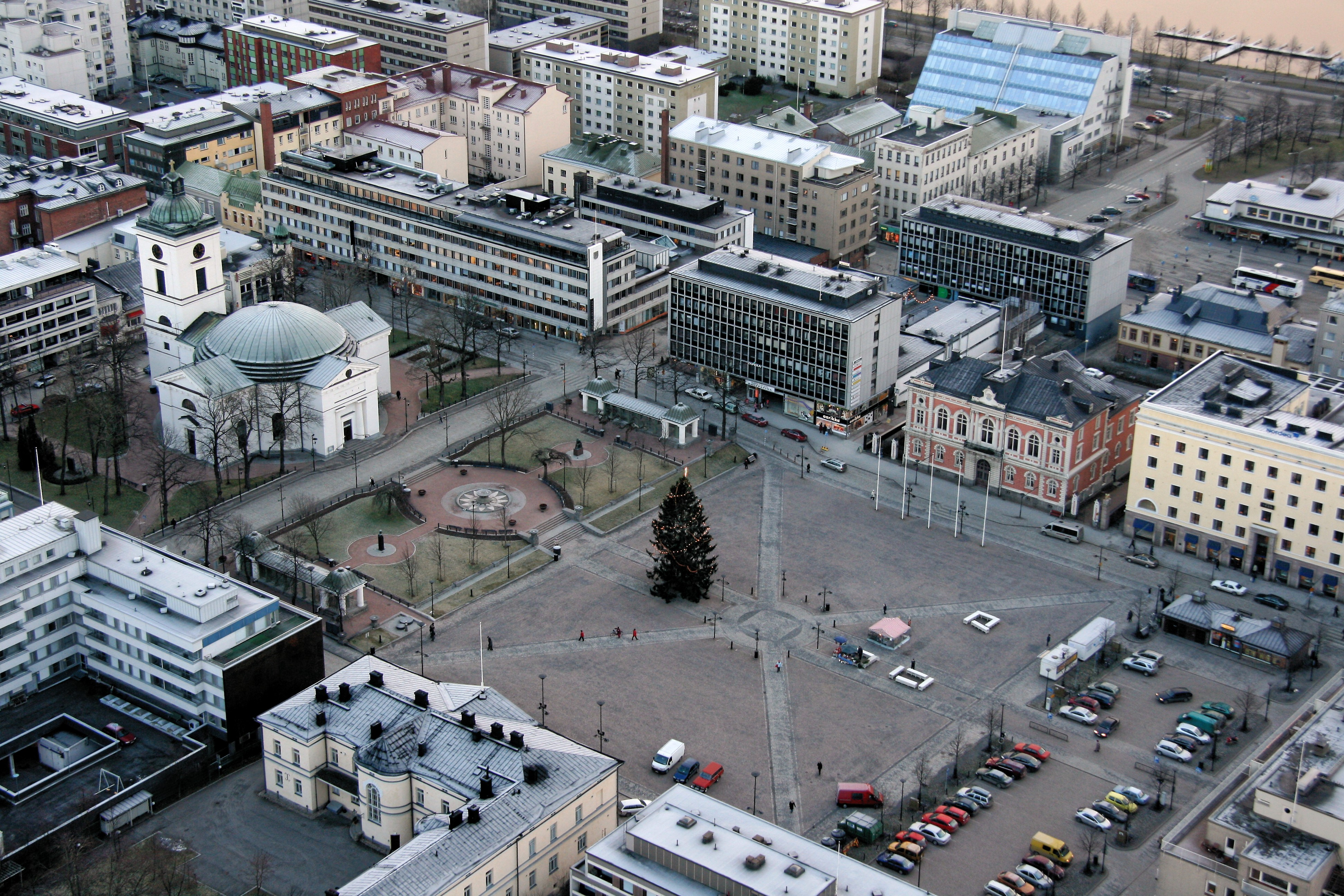 Hämeenlinna Church in Hämeenlinna, Finland